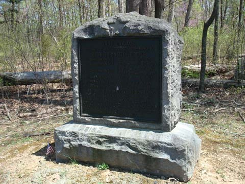 Candy's Brigade Marker, Sedgwick Avenue, Gettysburg Battlefield. Col. Charles Candy's brigade was composed of the 5th, 7th, 29th & 66th Ohio Infantry and the 28th & 147th Pennsylvania Infantry.